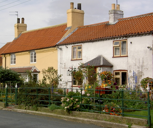 Cottages in Yapham, East Riding of Yorkshire, England.There is very little in this square in Yapham apart from these cottages and the telephone box (also submitted)